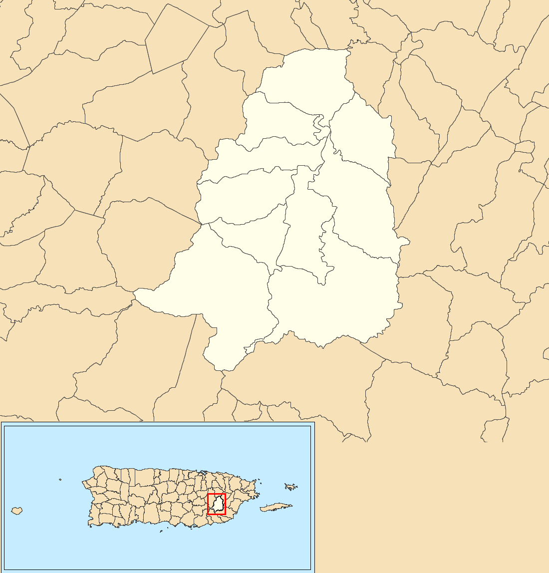 Barrios in the municipality